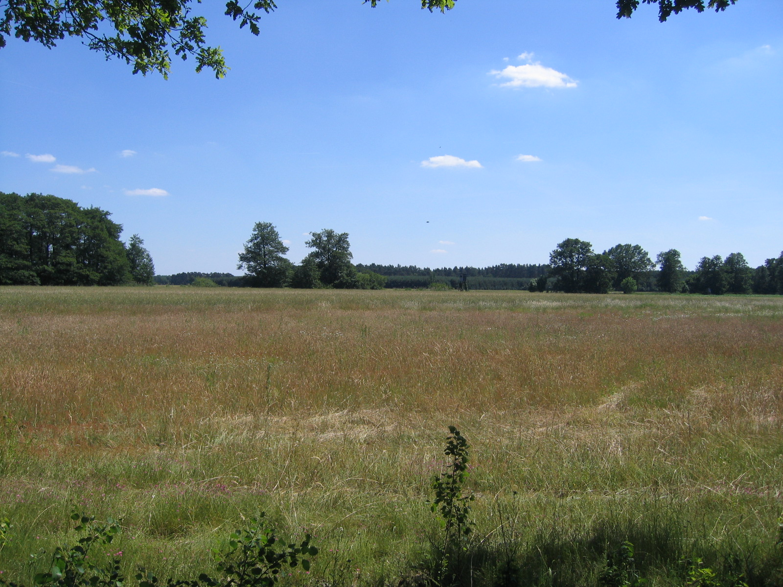 The Southern Heath (Südheide) south of the B3 near Wolthausen, Lower Saxony, Germany.